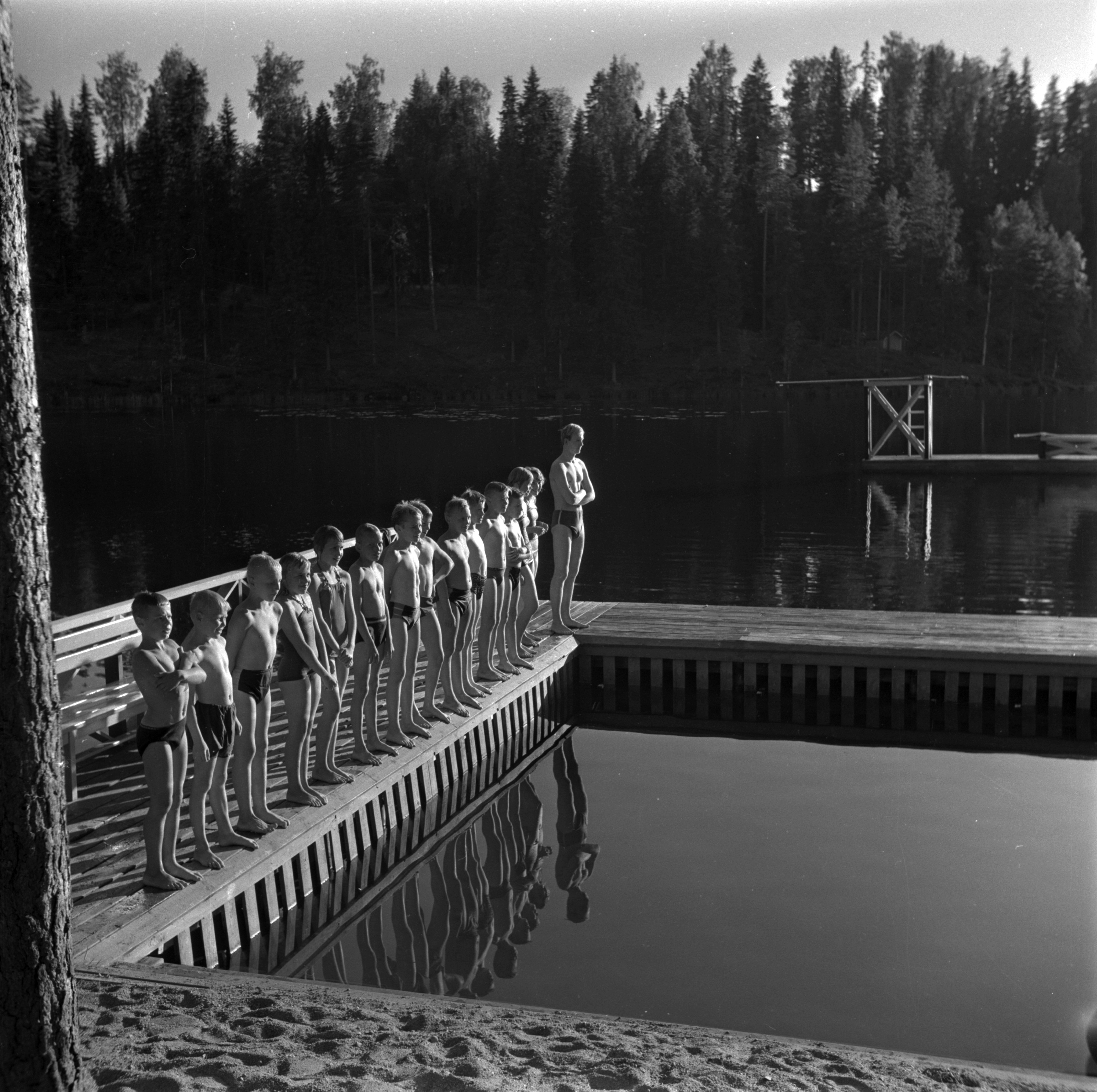 Photo by Jussi Kangas, Vapriikki Photo Archives.